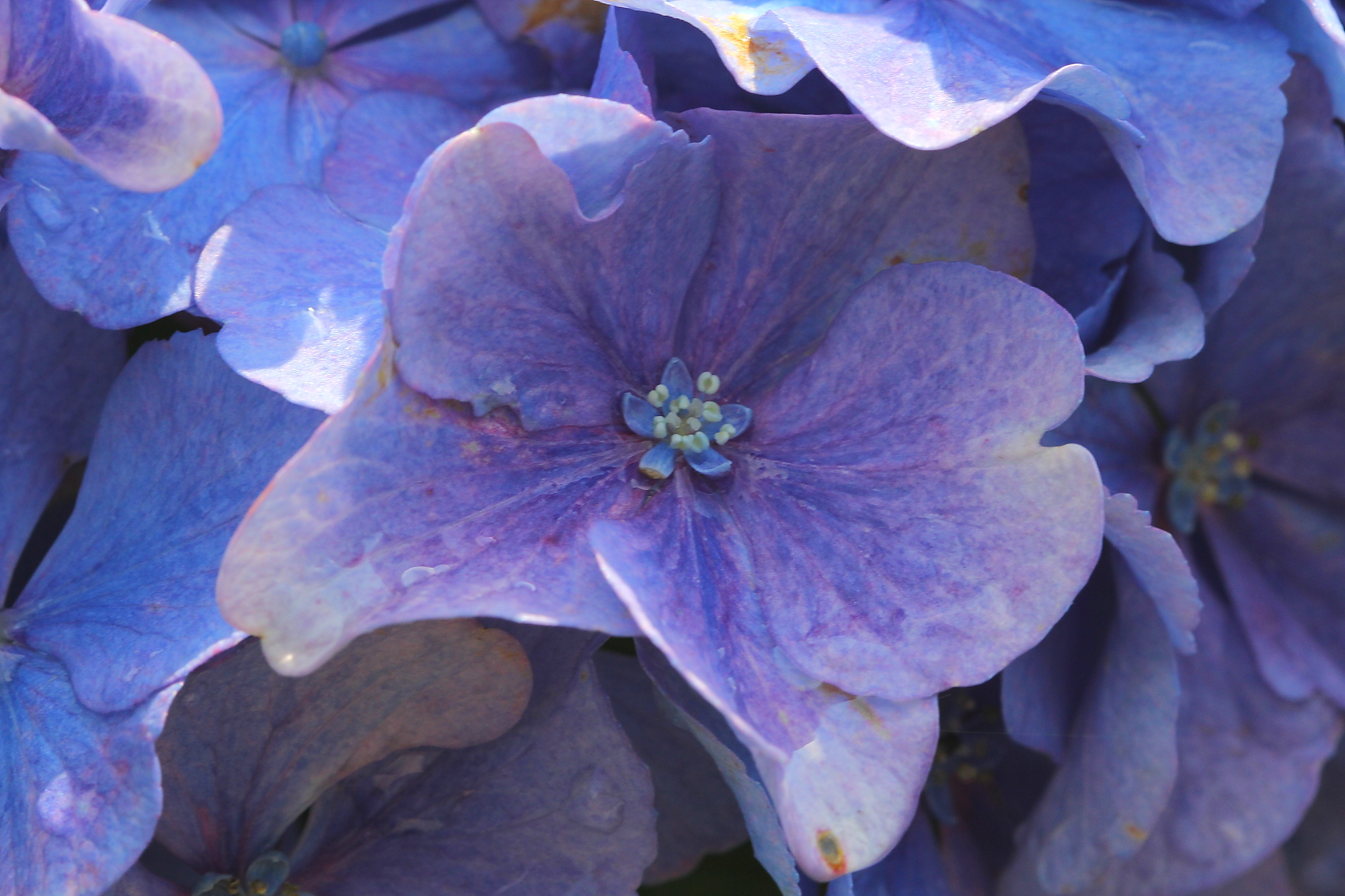 hydrangea blossom close-up